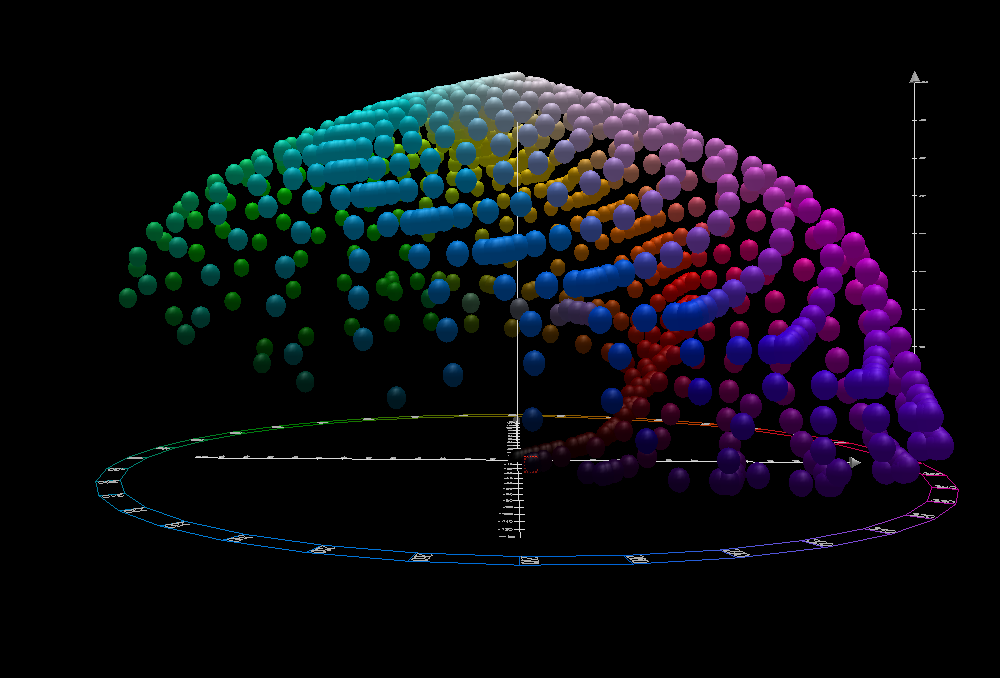 CIELAB color space from front